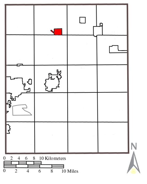 Map of Portage County, Ohio with the village of Mantua highlighted.